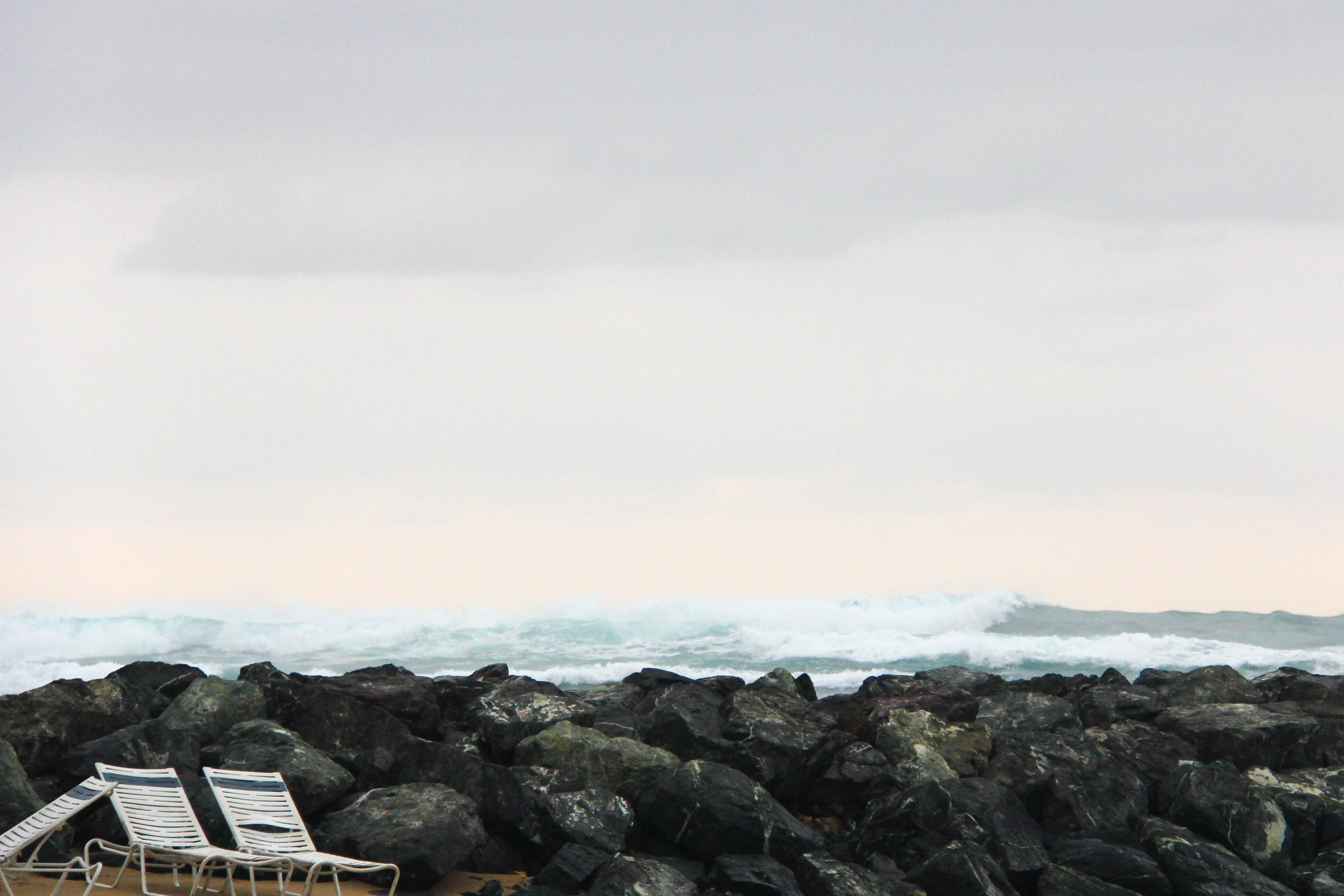 Beach chairs on a beach in Dorado, Puerto Rico